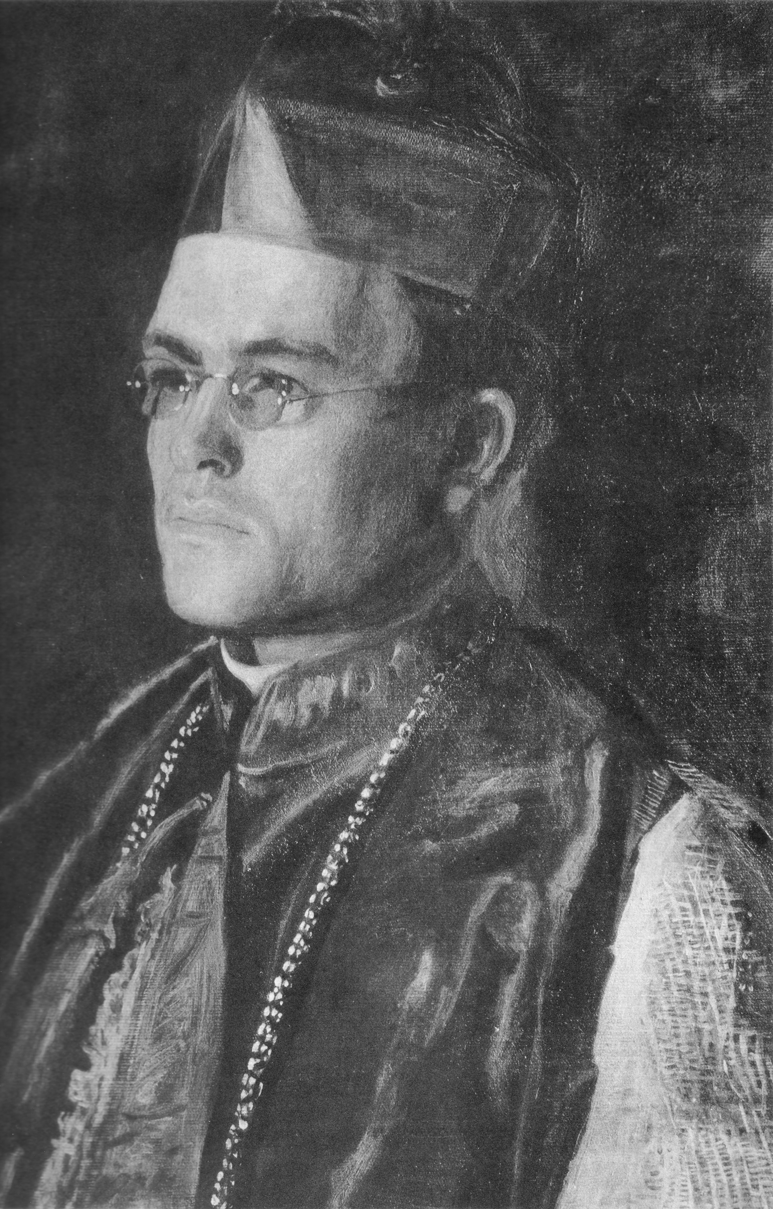 Portraits by Thomas Eakins